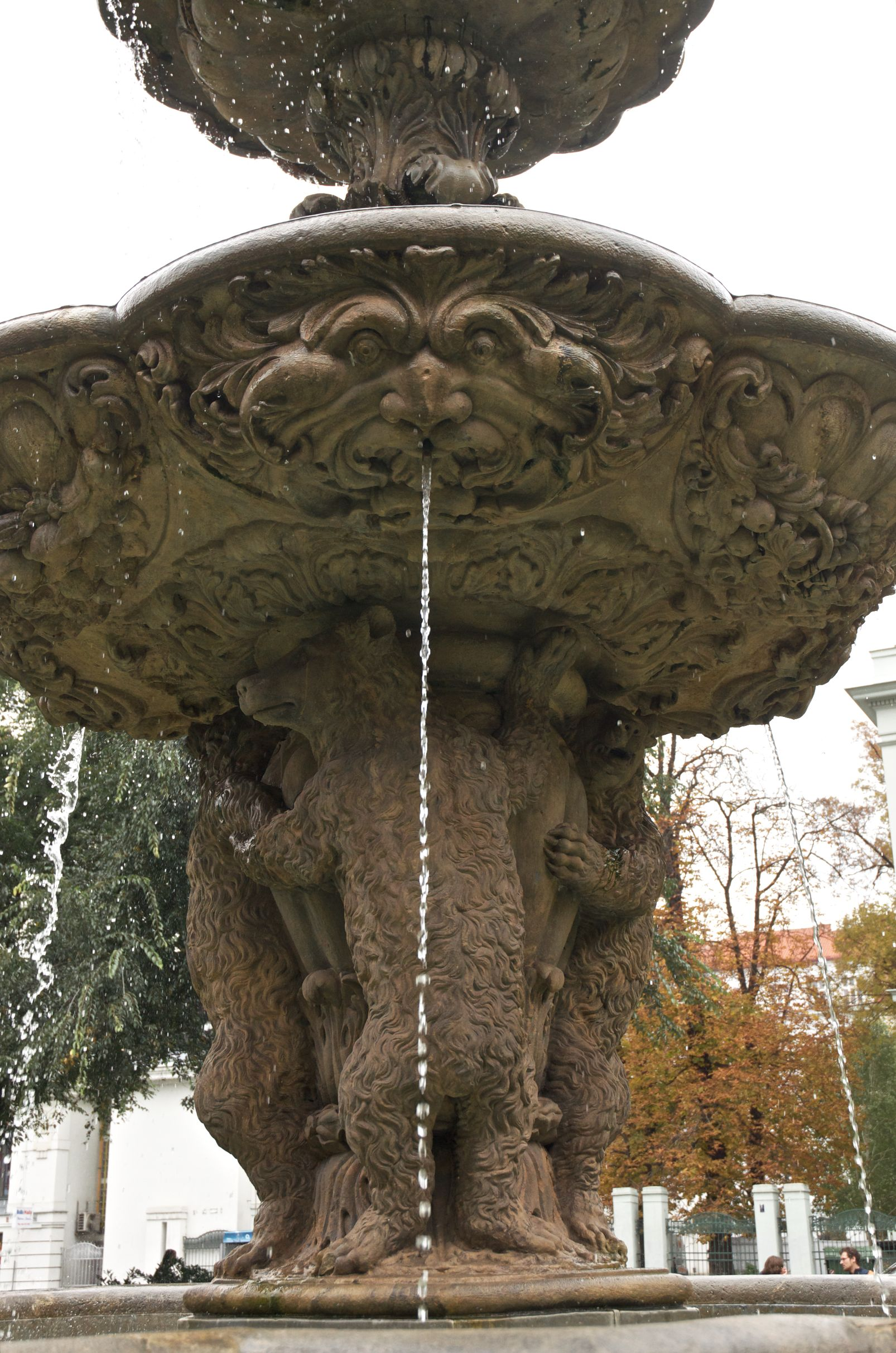 Fountain on 14. října square, Prague